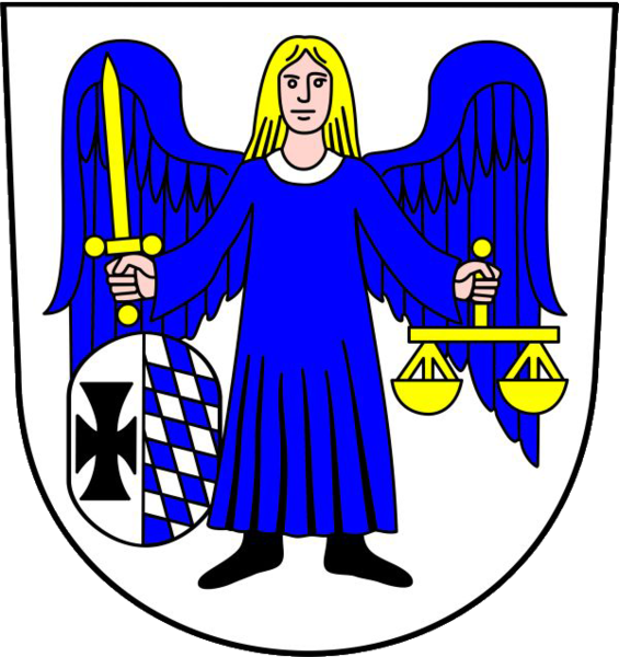 CoA of Elztal (Odenwald).